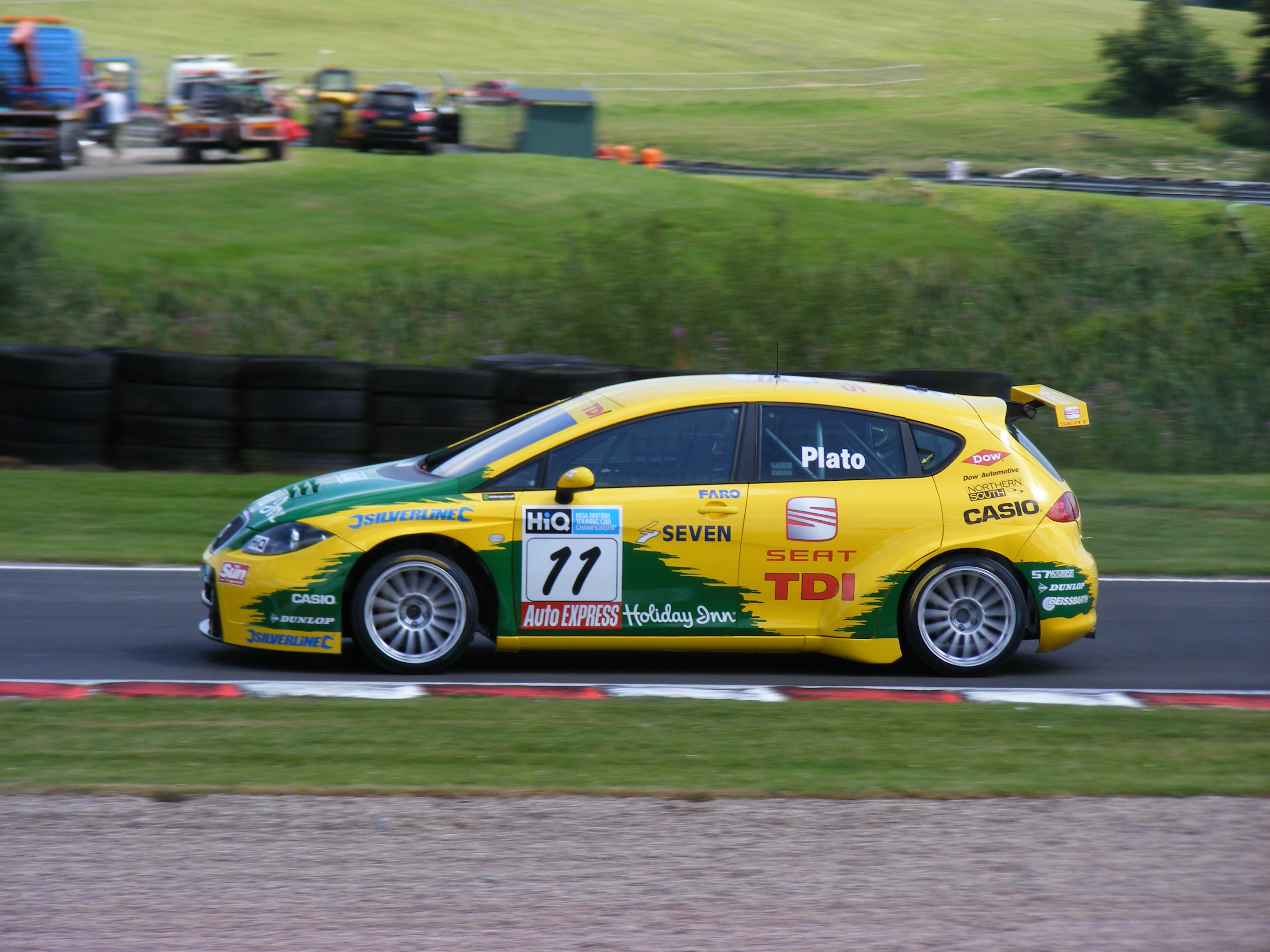 Jason Plato exits Knickerbrook during the BTCC qualifying session at Oulton Park.